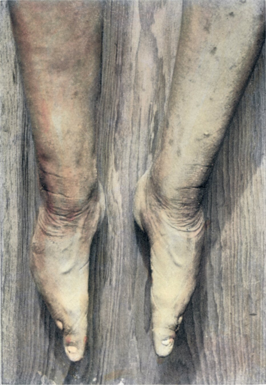 The crippled feet of a Chinese woman.